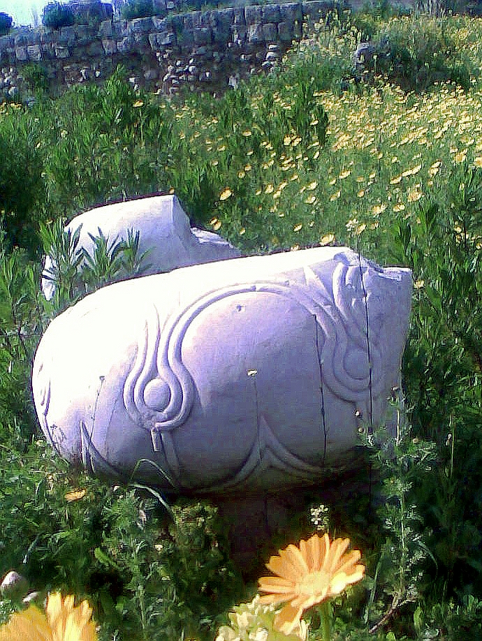 Base of a column from a temple dedicated to Hadad at the Eshmun temple in Bustan esh Sheikh, near Sidon, Lebanon